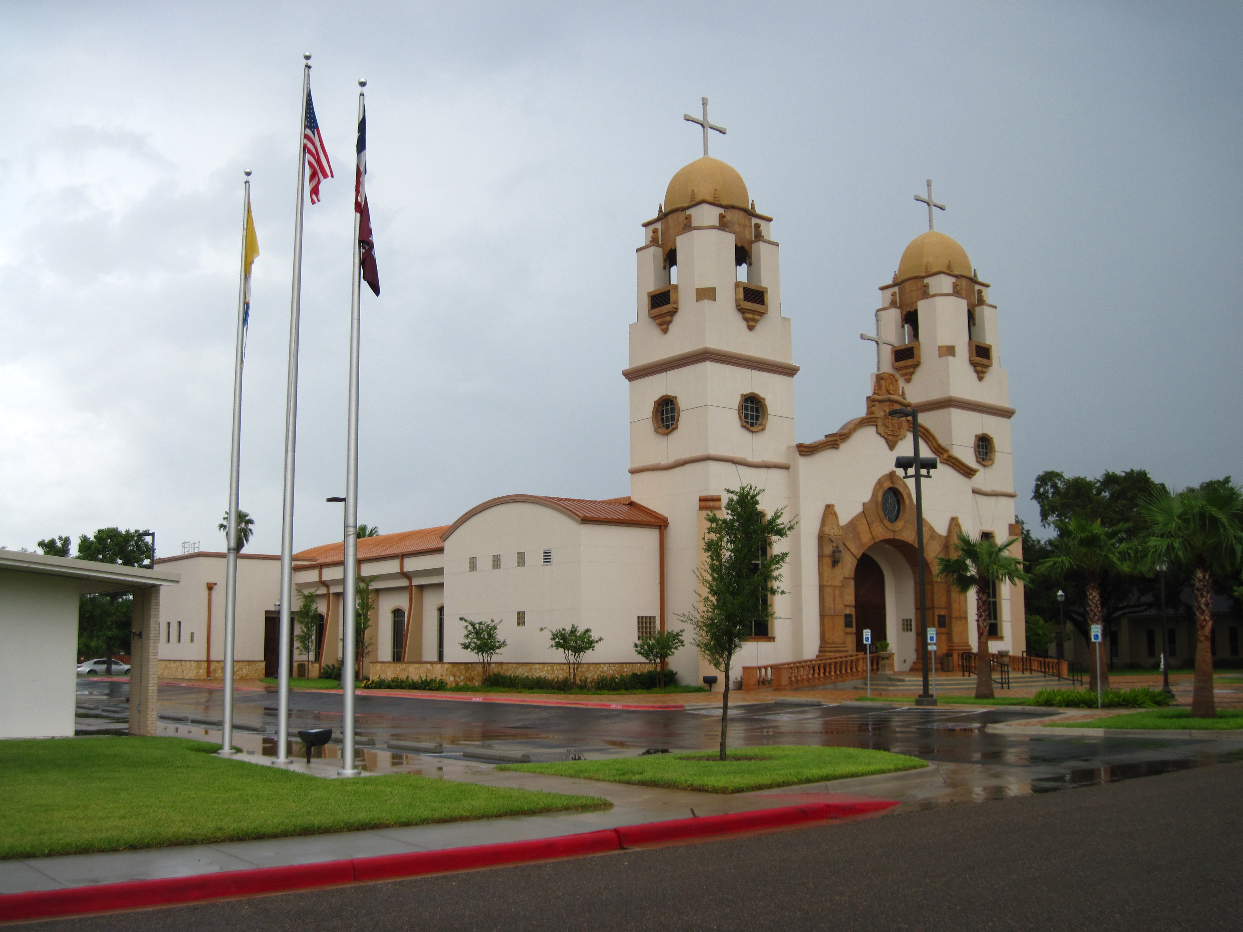 Weslaco San Pius X Catholic Church.